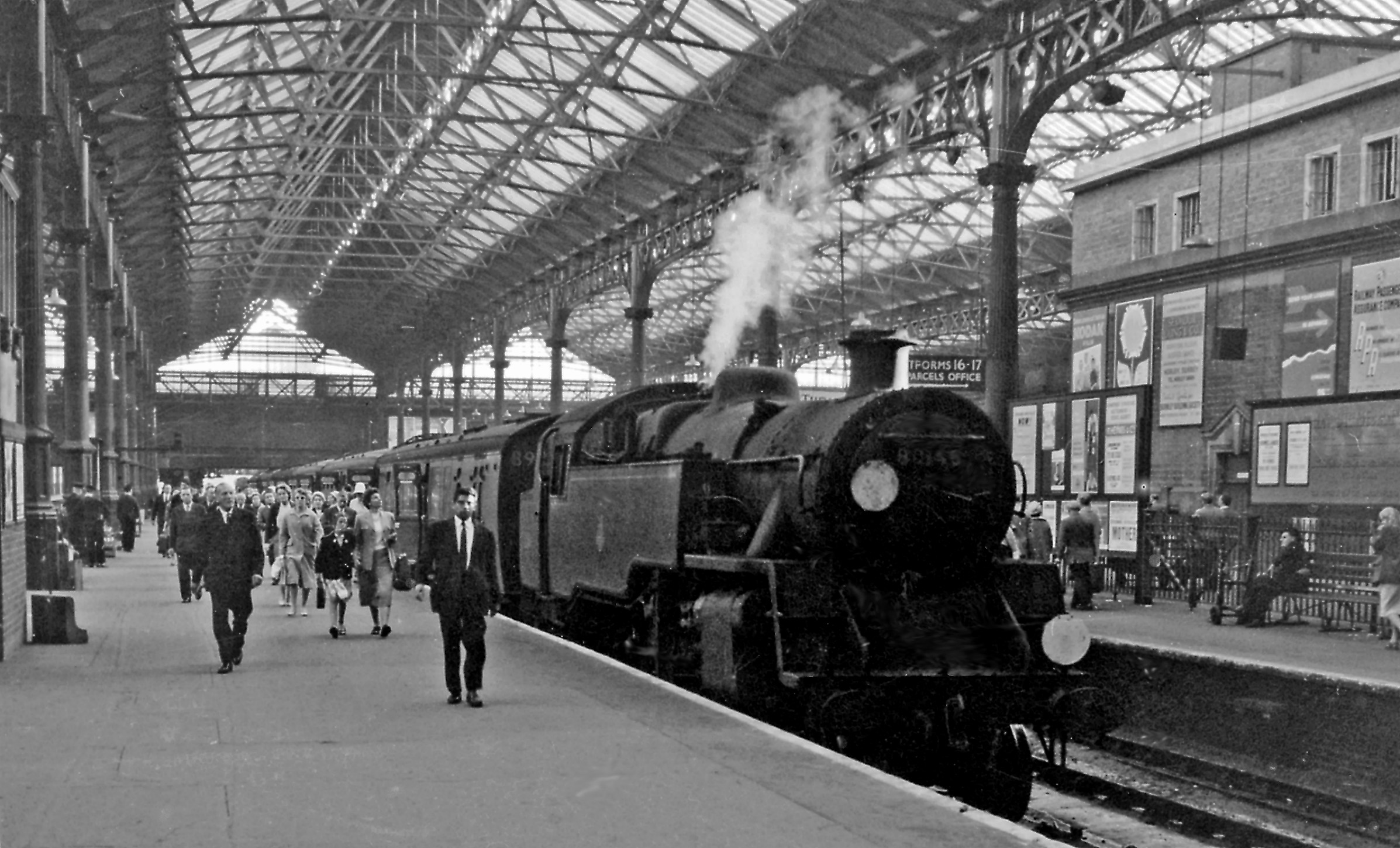 Train from Tunbridge Wells West at Victoria (Central) Station. View SW, outward from near the barrier of Platform 14/15. Unlike all the other services into Victoria (Central, ex-LB&SC,) which were electrified before World War 2, the Oxted line trains remained steam-worked into the early 1960s, by 'imported' LMS-type and BR Standard classes. Here BR Standard 4MT 2-6-4T No. 80148 (built 11/56, withdrawn 6/64) has brought a train from Tunbridge Wells West.